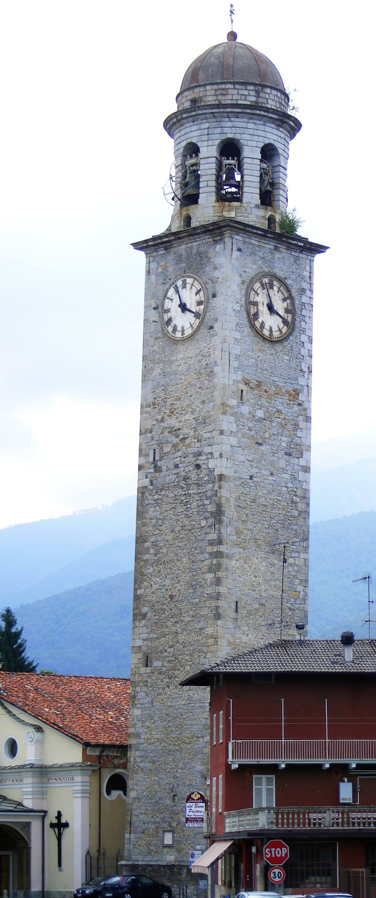 Croce Mosso (Vallemosso, BI, Italy): bell tower